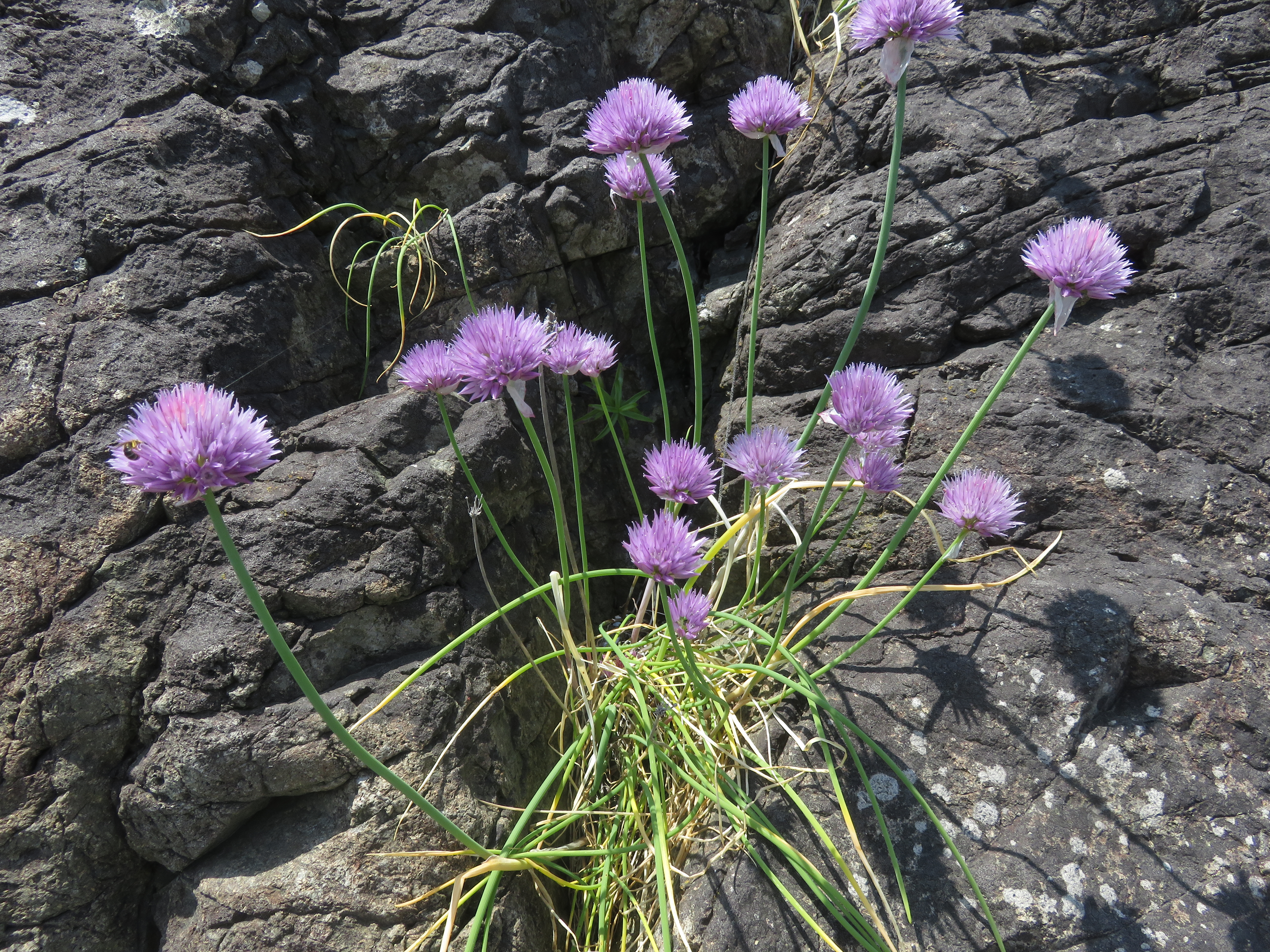 Allium schoenoprasum var. foliosum, Tanesashi Coast, Aomori pref., Japan